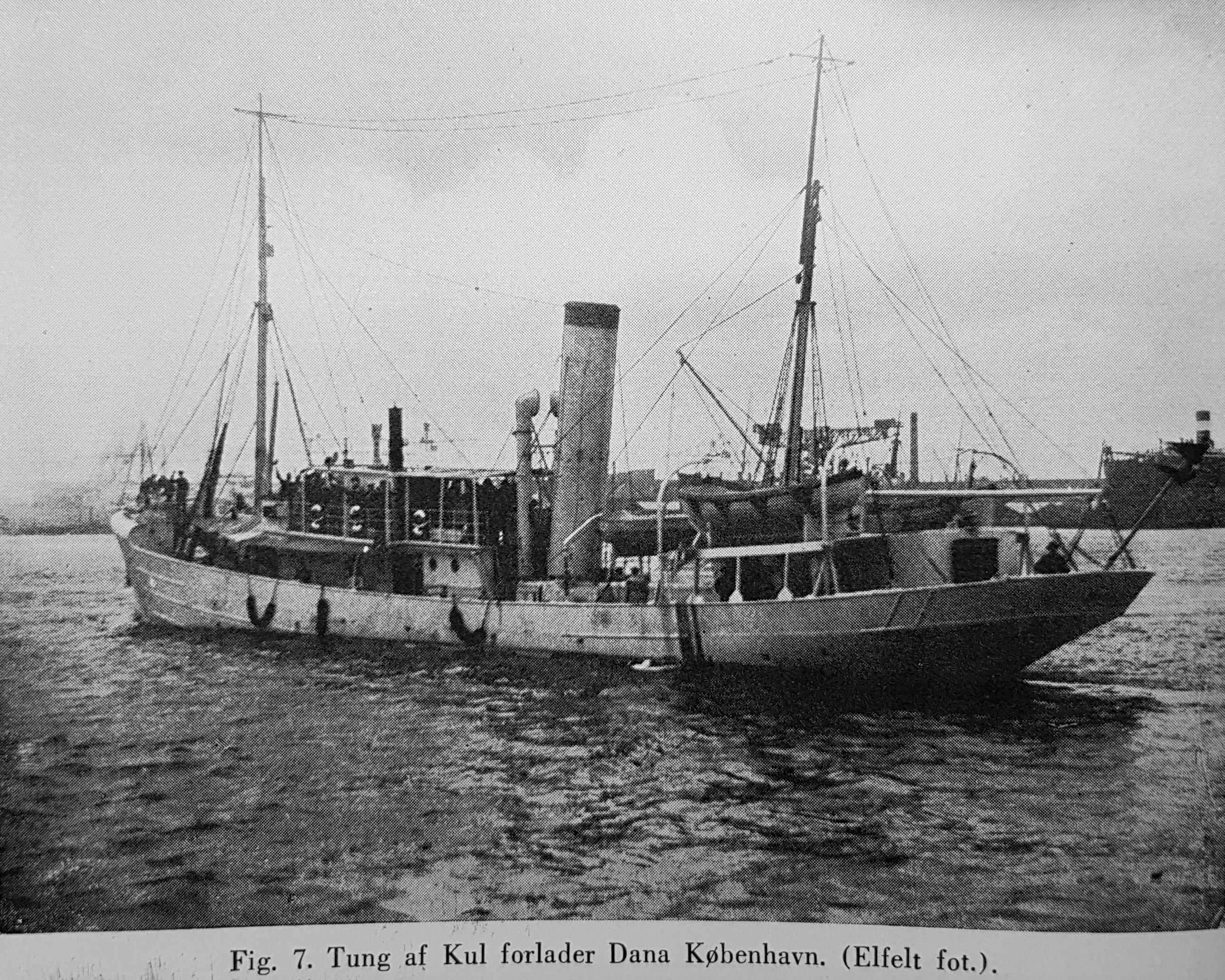 Danish research ship Dana II leaving Copenhagen on the 14th of June 1928, marking the beginning of the circumnavigation of the world (1928-1930) under the command of Johannes Schmidt. Legend says "Heavily loaded with coal, Dana leaves Copenhagen".